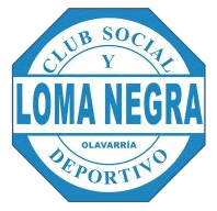 Logo of Club Social y Deportivo Loma Negra from the city of Olavarría, Buenos Aires Province